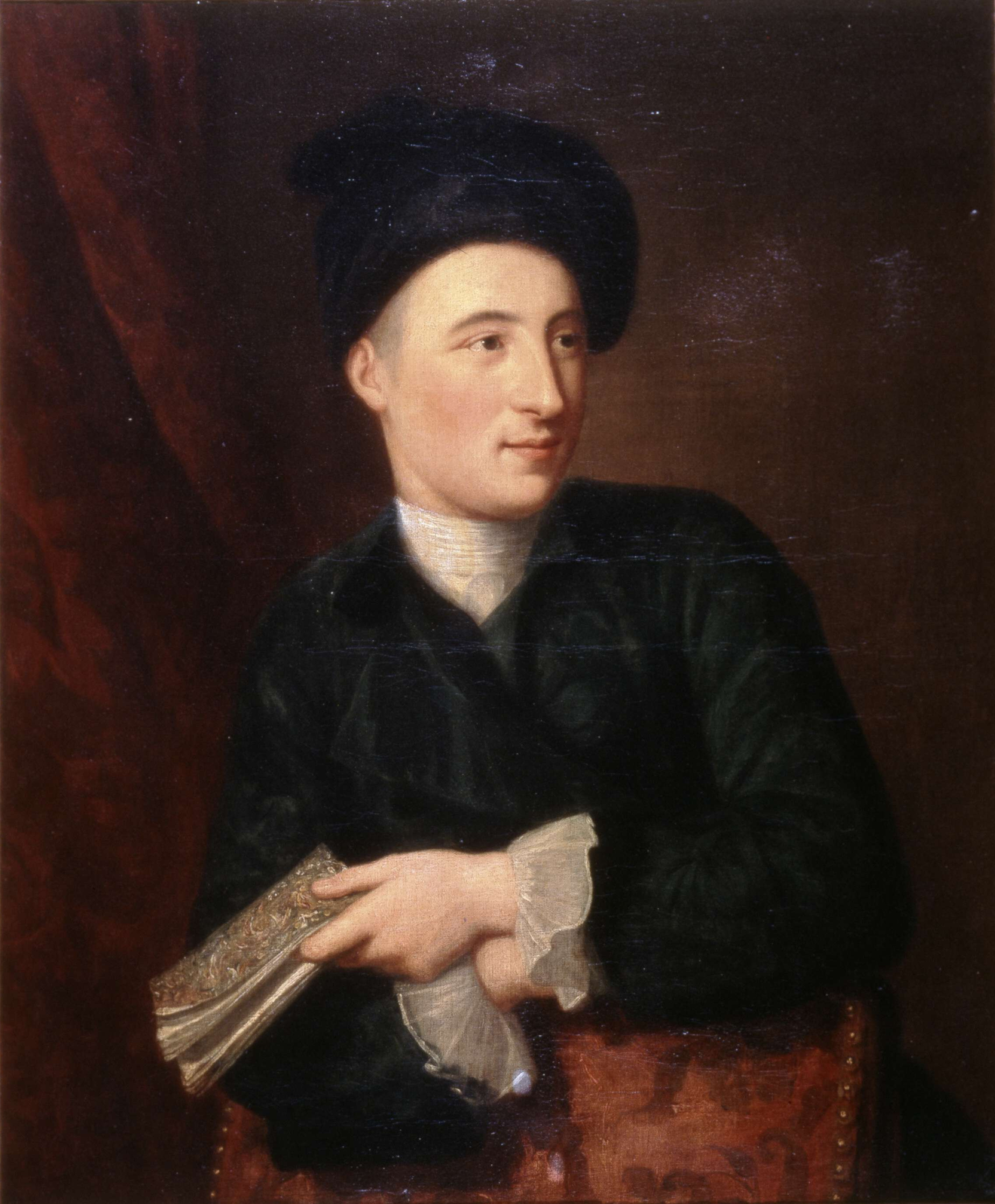 Matthew Maty (1718-1776) Dutch physicians, biographer and librarian